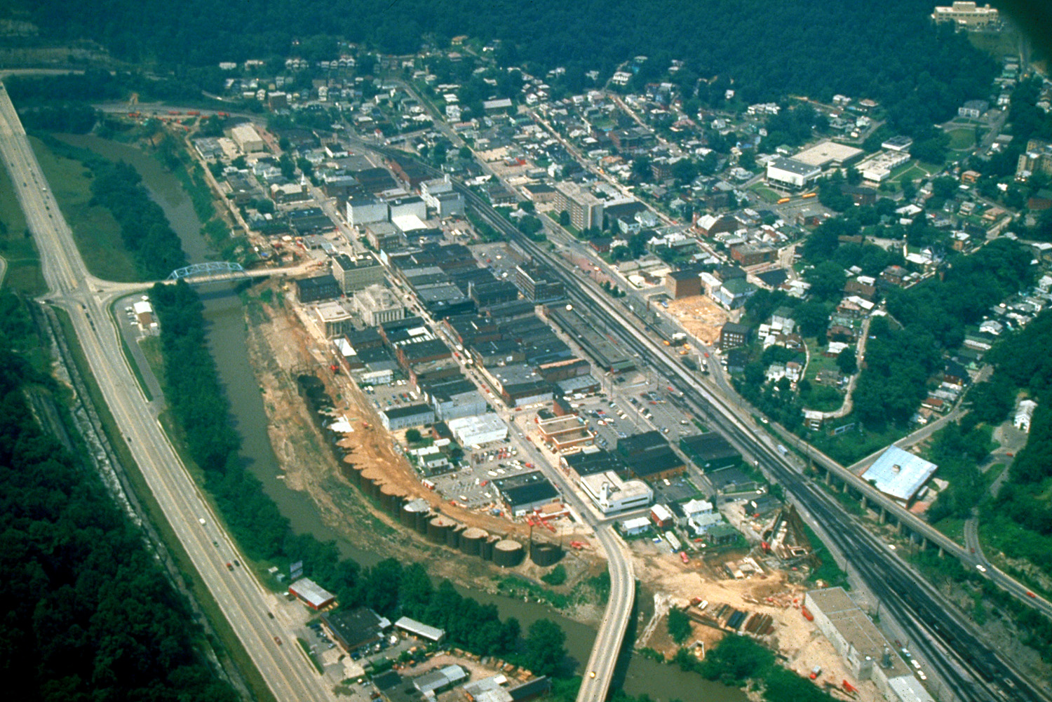 Aerial view of Williamson, West Virginia, USA. The border between West Virginia and Kentucky runs along the Tug Fork River, and the highway on the left is in the state of Kentucky.